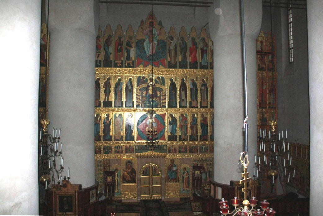 Feodorovsky Cathedral in Tsarskoye Selo. The upper church iconoclasis